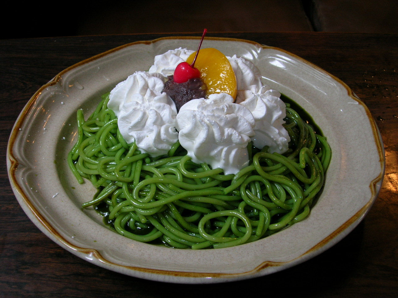 Amakuchi Mattya Ogura Spaghetti (Kissa Mountain's funny sweet menu.) Loc: Kissa Mountain. Showa-ku, Nagoya city, Aichi Prefecture, Japan 甘口抹茶小倉スパ 撮影場所 愛知県名古屋市昭和区 喫茶マウンテン